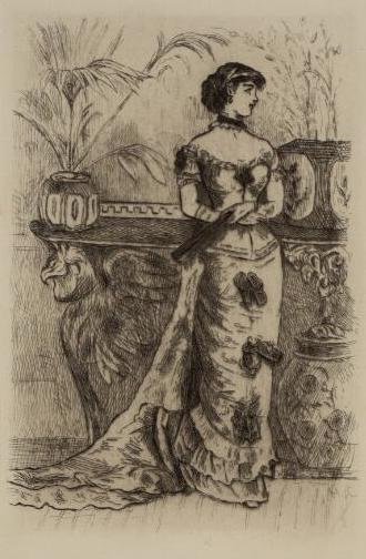 A portrait from the Welsh Portrait Collection at the National Library of Wales. Depicted person: Mrs. Henry Clarke – English writer